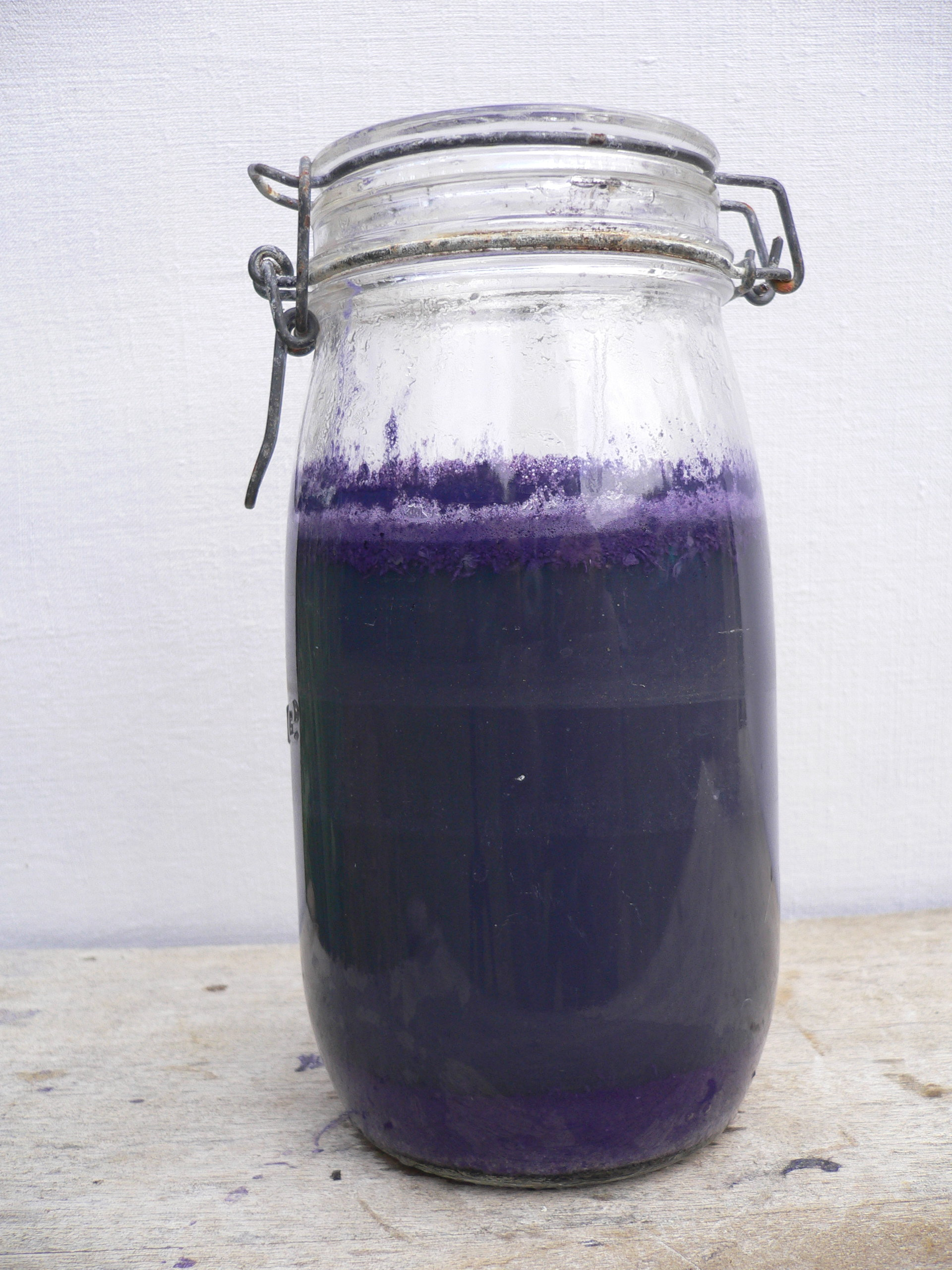 Fresh purple dye-bath, not yet reduced, from Hexaplex trunculus